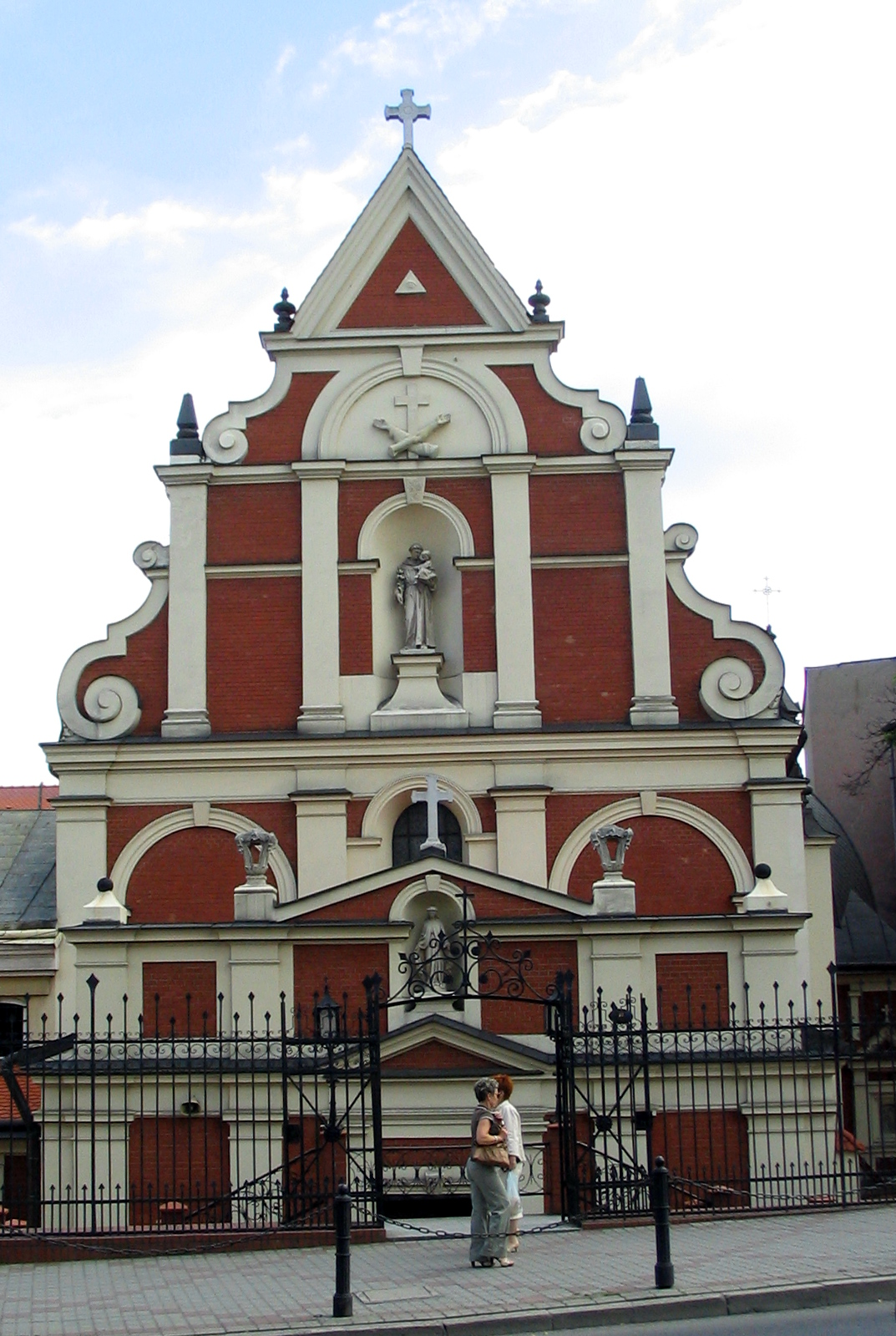 Church of St. Anthony in Przemyśl, Poland.